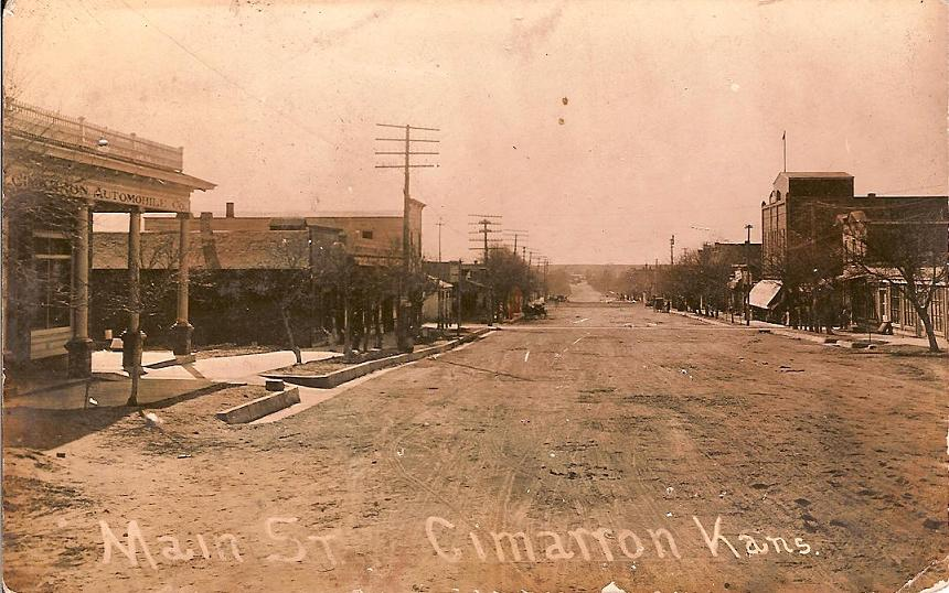 A postcard of Main Street in Cimarron, Kansas, postmarked August 1, 1914.